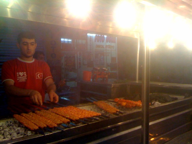 One of the three carts of Kebapçı Şeyhmus, Downtown Adana, 2009. Kıyma Kebabı & Beyti.